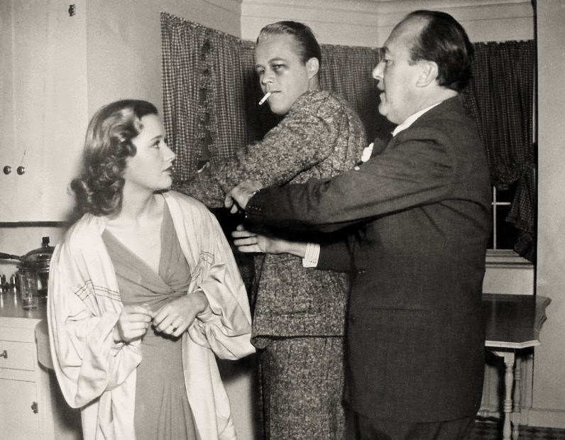 L. to R. : Priscilla Lane, Wayne Morris & Stanley Logan (director) on the set of Love, Honor and Behave - publicity still